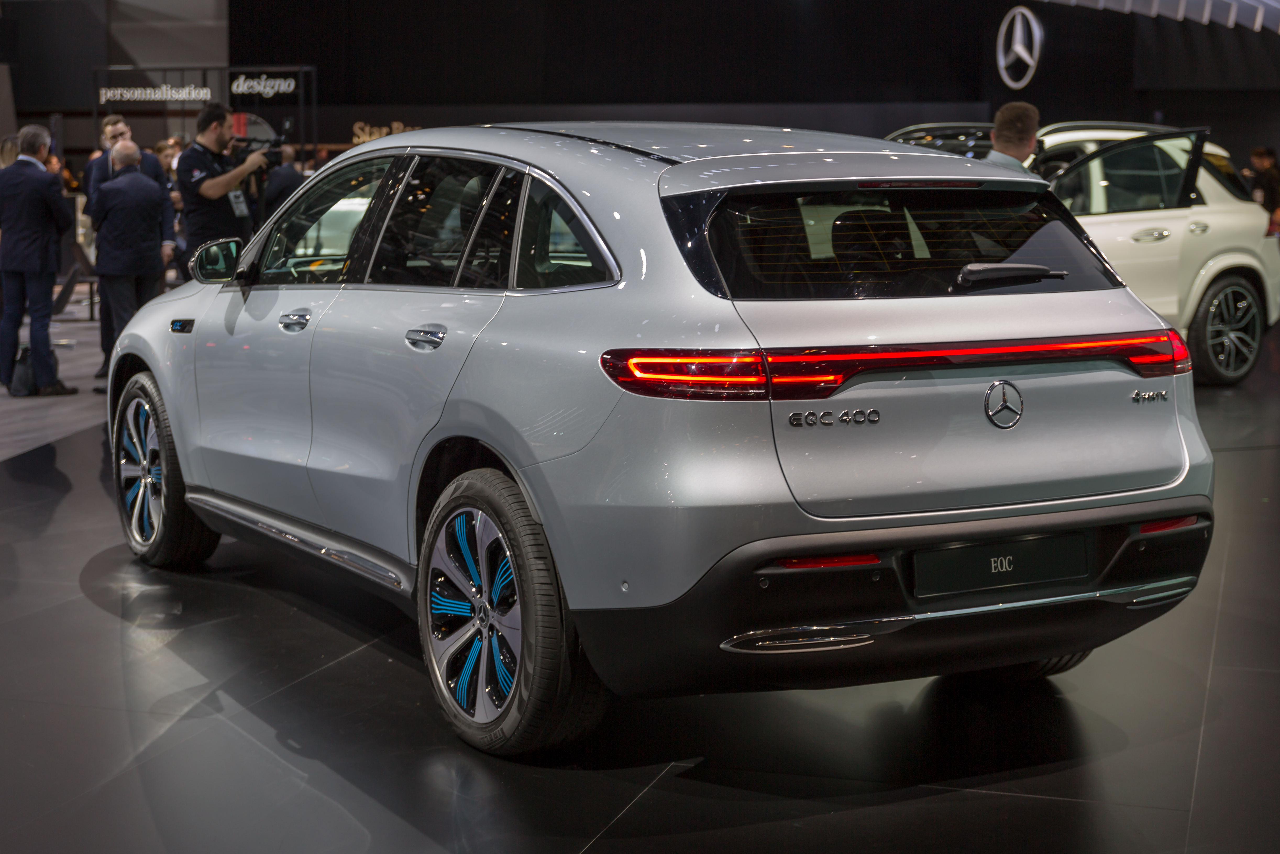 Mercedes EQC 400, Mondiale Paris Motor Show 2018